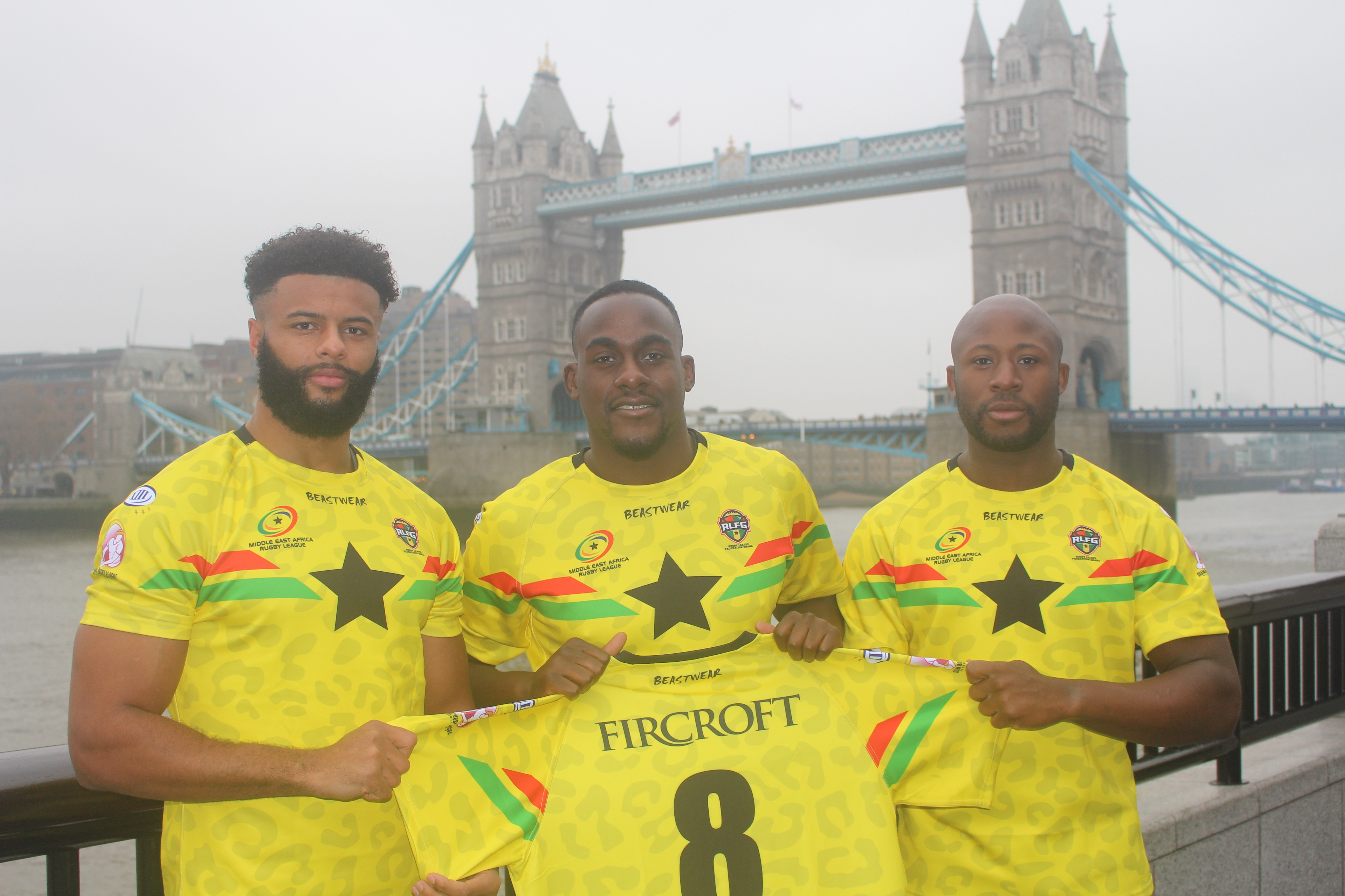 Jersey presentation